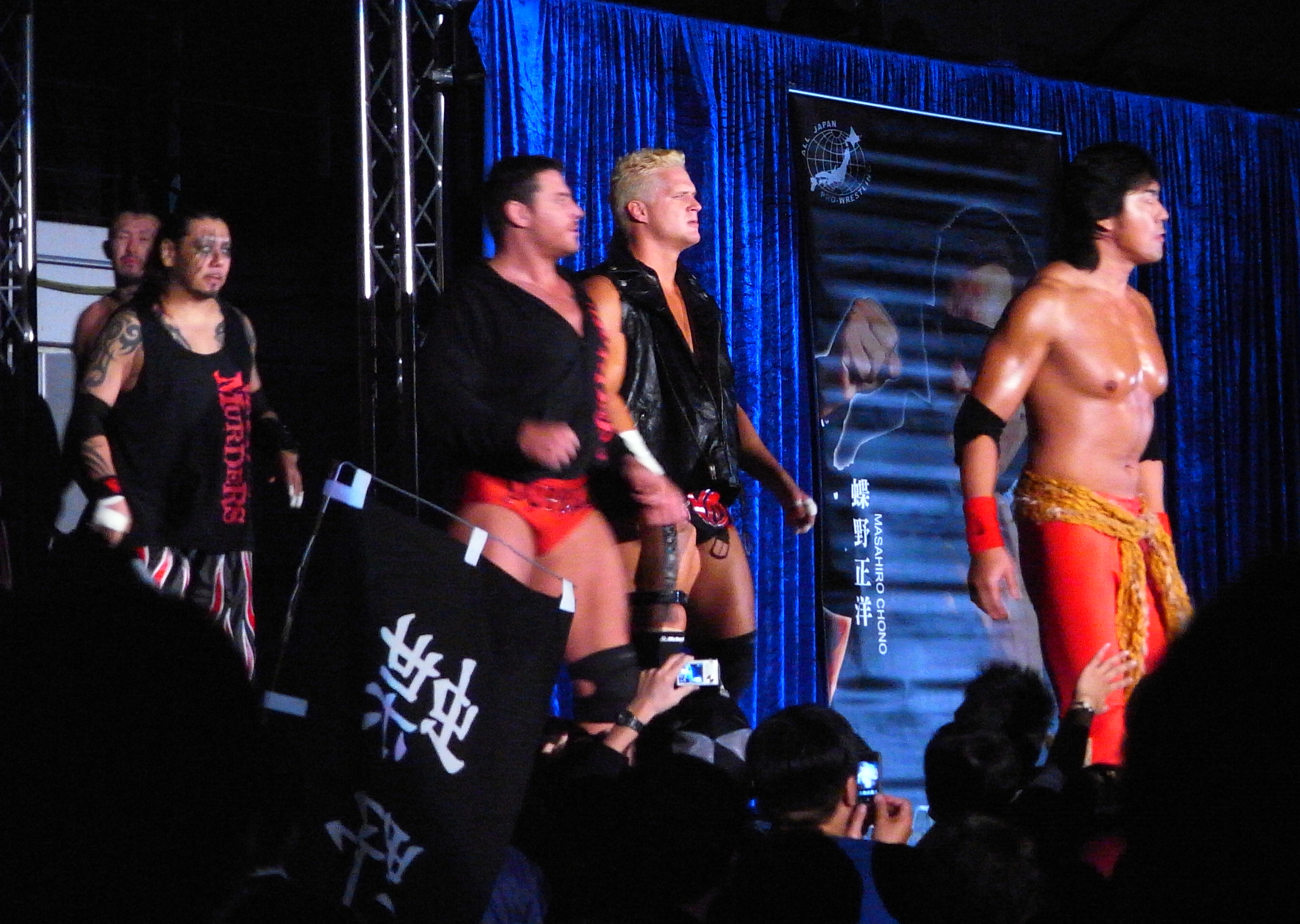 Voodoo Murders at AJPW "Pro-Wrestling Love in Taiwan 2010", the National Taiwan University Gymnasium, Taipei.